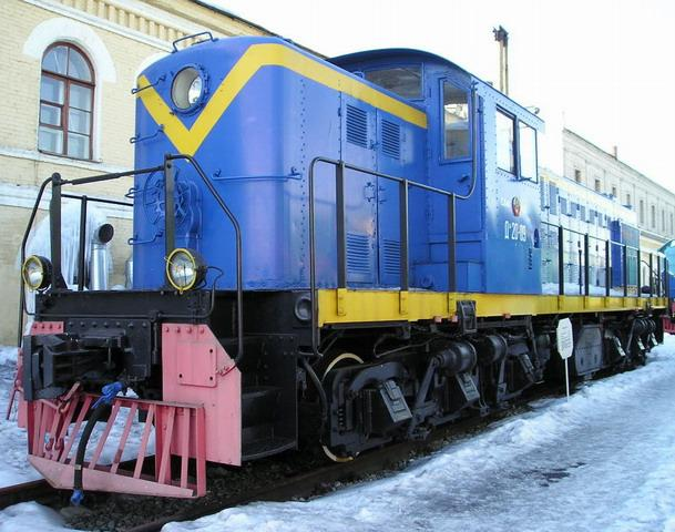 The exhibit of the open-air railway museum in former Varshavsky terminal in Saint-Petersburg, Russia. Was built in 1944 by ALCO (American Locomotive Company) factory, USA for USSR. Diesel locomotive Da20